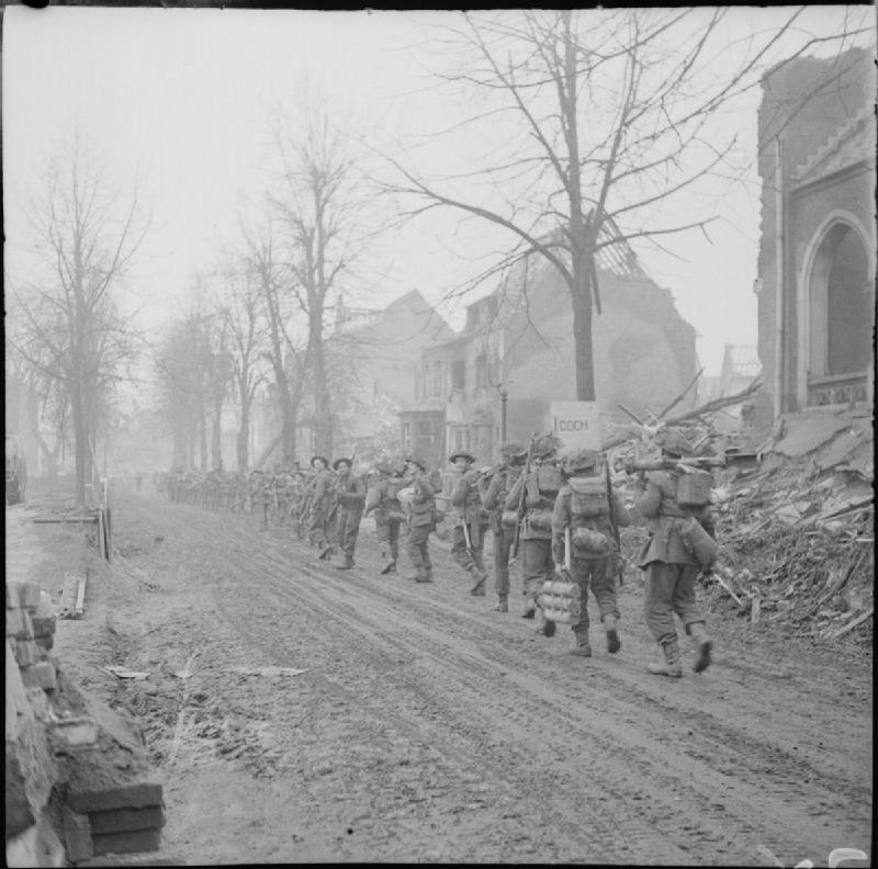 The British Army in North-west Europe 1944-45 Infantry advancing through Kleve, 16 February 1945.